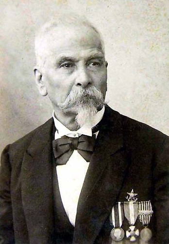 Timoteo Riboli